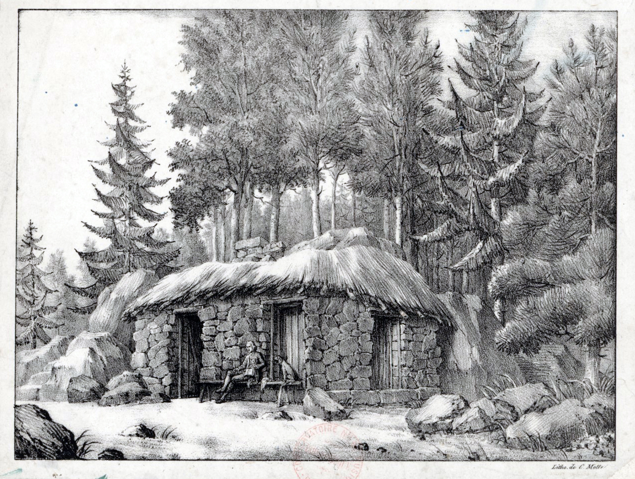 Lithographie.